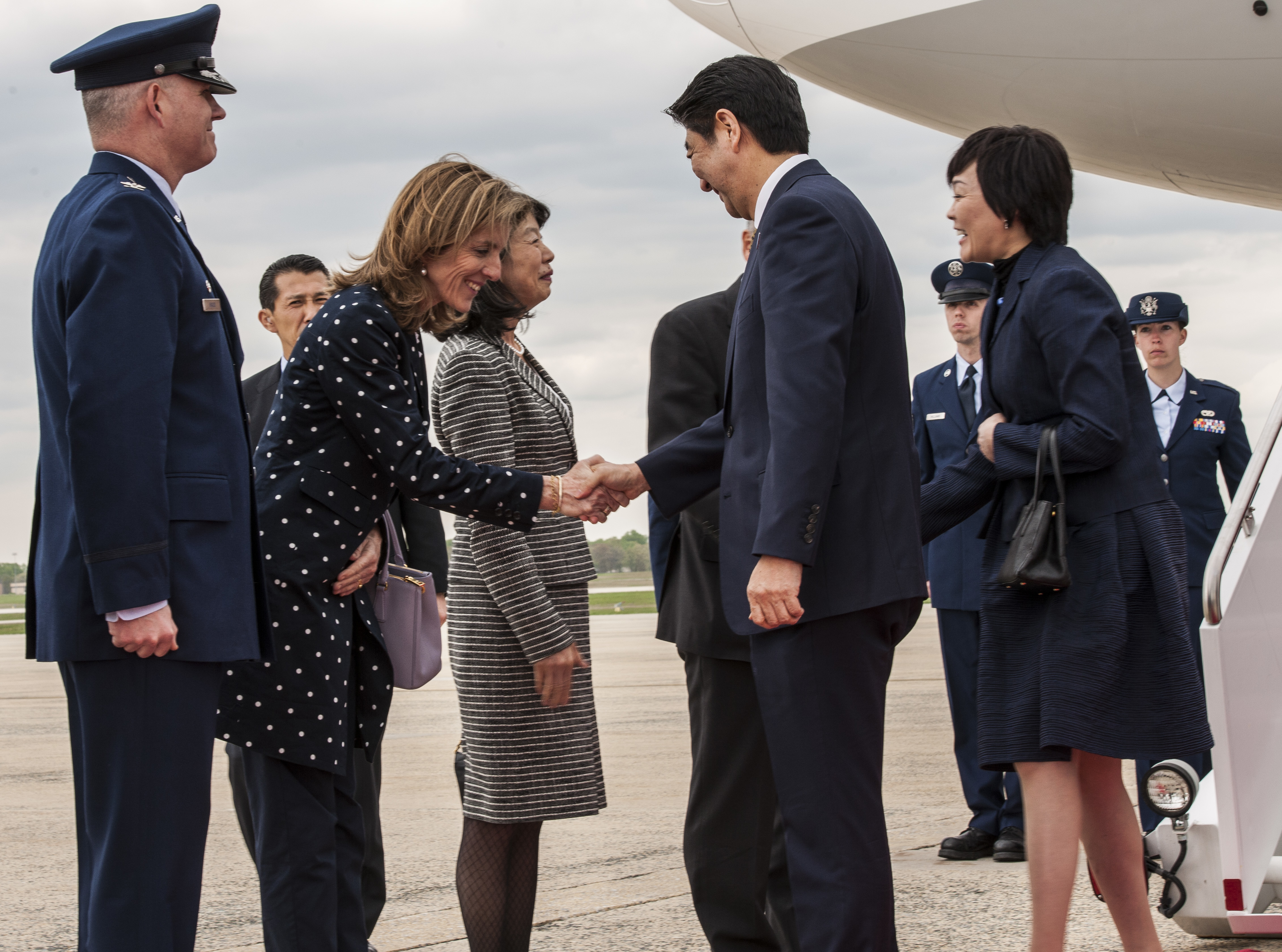 Prime Minister of Japan Shinzō Abe greets Caroline Kennedy, U.S. Ambassador to Japan and daughter of former-president John F. Kennedy; as his wife, Akie Abe and Col. Lawrence Havird, 89th Maintenance Group commander, standby at Joint Base Andrews, Md., April 27, 2015. Abe is in the U.S. for a weeklong visit to promote stronger military and economic ties. (U.S. Air Force photo by Senior Master Sgt. Kevin Wallace/Released)